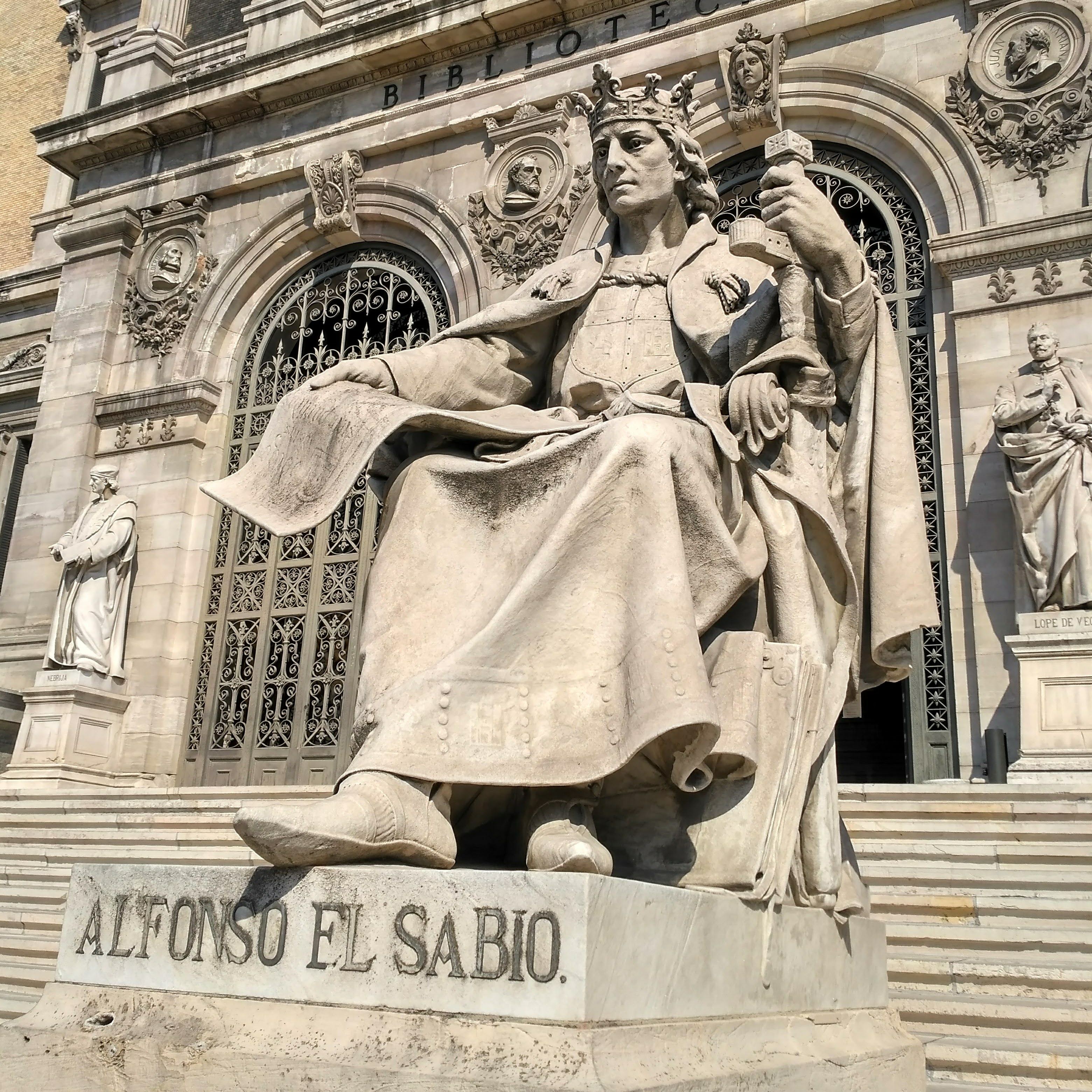 Statue of Alfonso X El Sabio, outside the Biblioteca Nacional (National Library) in Madrid, Spain.